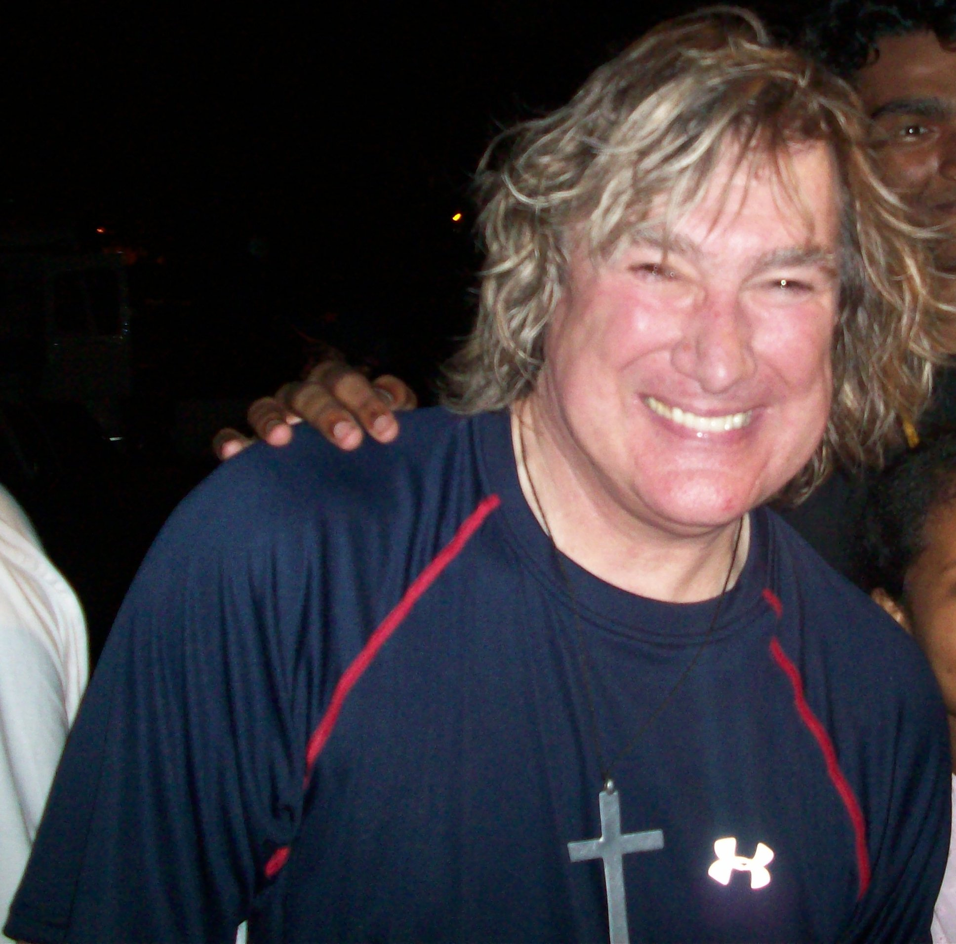 Photo of Christian rock vocalist, John Schlitt, right after he performed at YMCA, Royapettah, in Chennai, India, on the evening of 17th May, 2008, during his "The Grafting" tour, India. The photo has been cropped, to remove other people in the photograph.